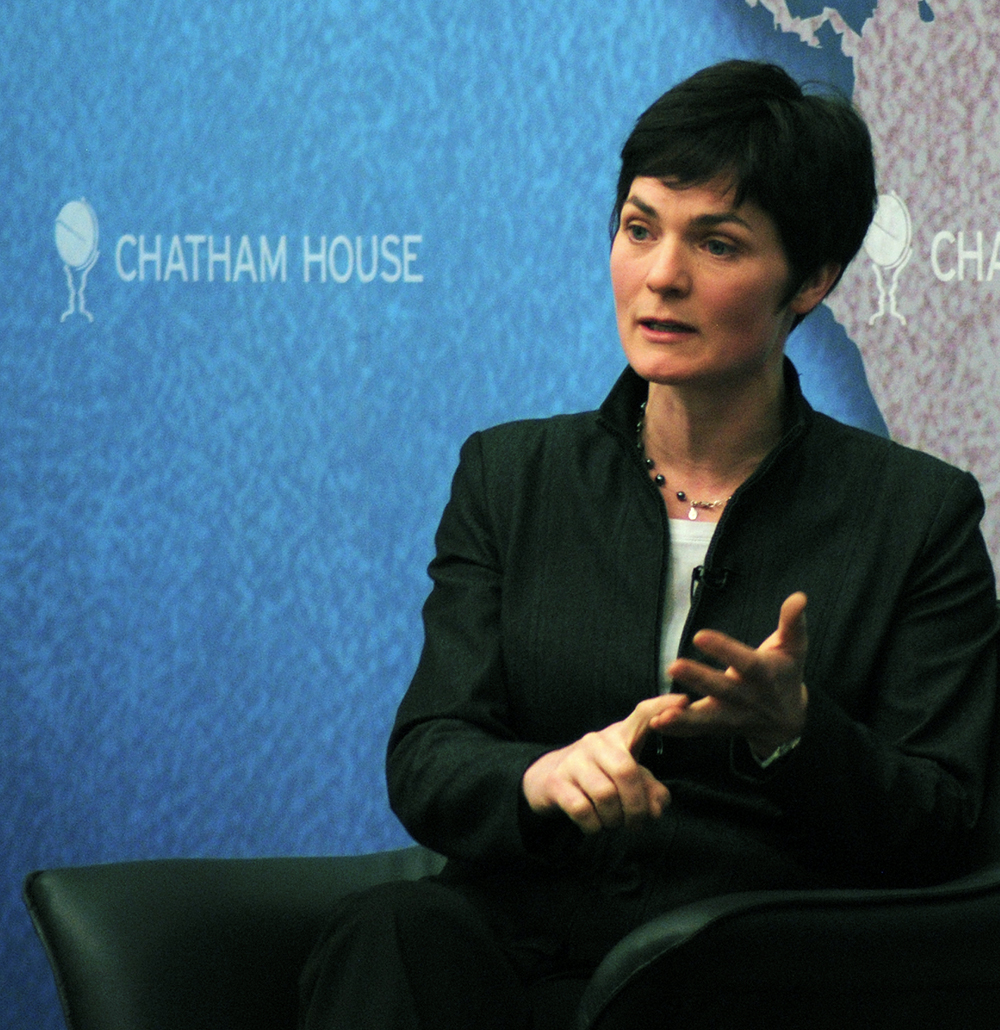 The Circular Economy: Redesigning the Future, 14 February 2013